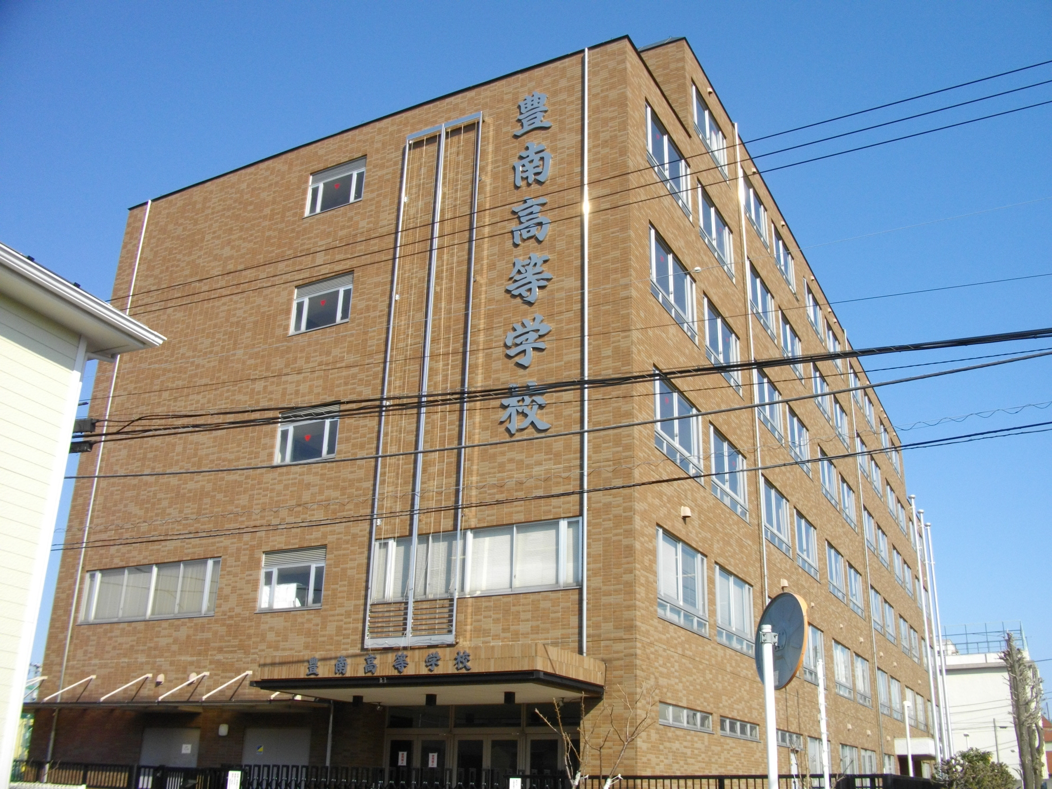 Honan High School